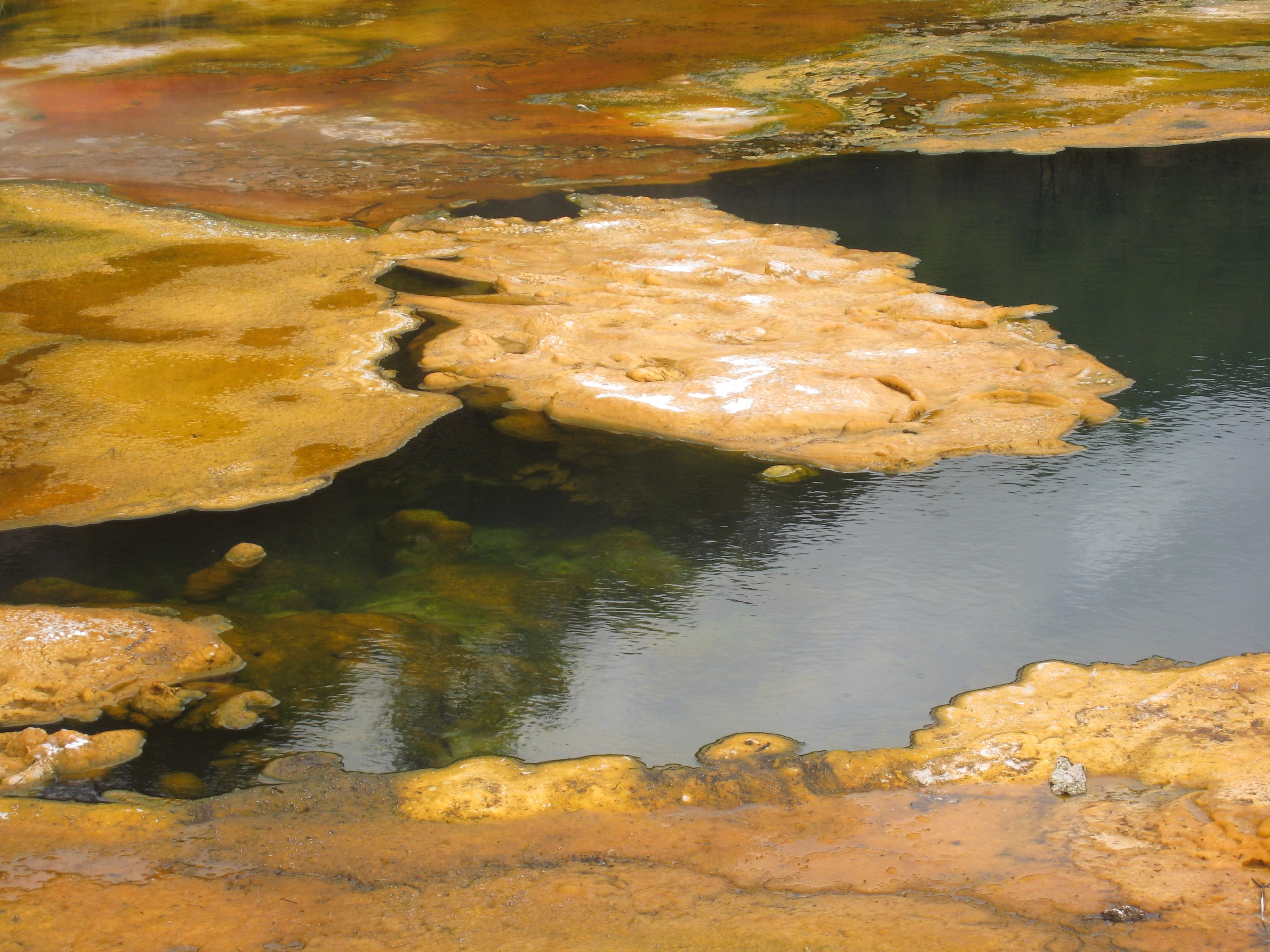 Algal mats on the Map of Africa hot pool, Orakei Korako geothermal area, New Zealand.